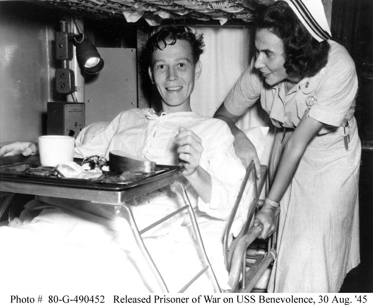 Released POW Alfred Sorenson, U.S. Army, contemplates a full meal in one of the USS Benevolence's wards, 30 August 1945. Navy Nurse Lieutenant (Junior Grade) Asplan is assisting. Sorenson had been captured at Corregidor on 6 May 1942. He was rescued from a POW camp in the Tokyo area. Official U.S. Navy Photograph, now in the collections of the National Archives.